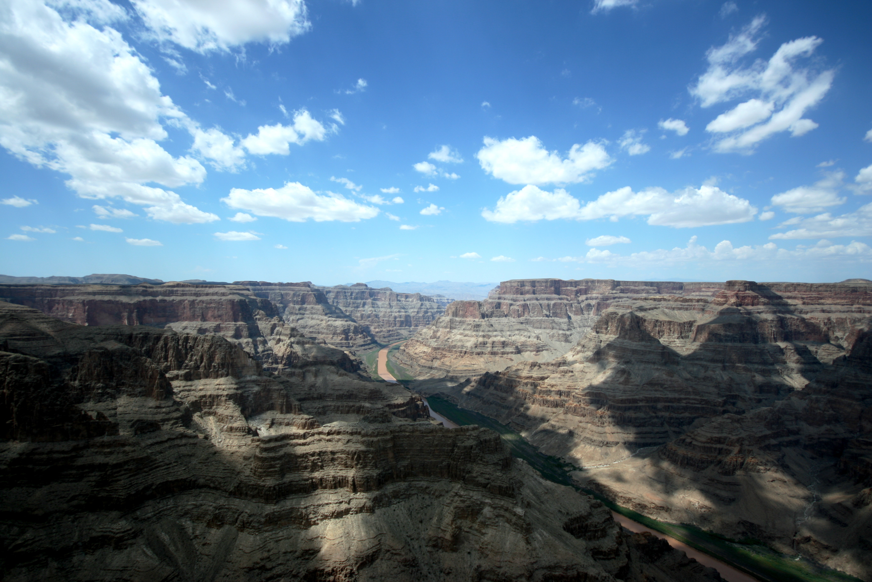 View on Grand Canyon West from Guano Point